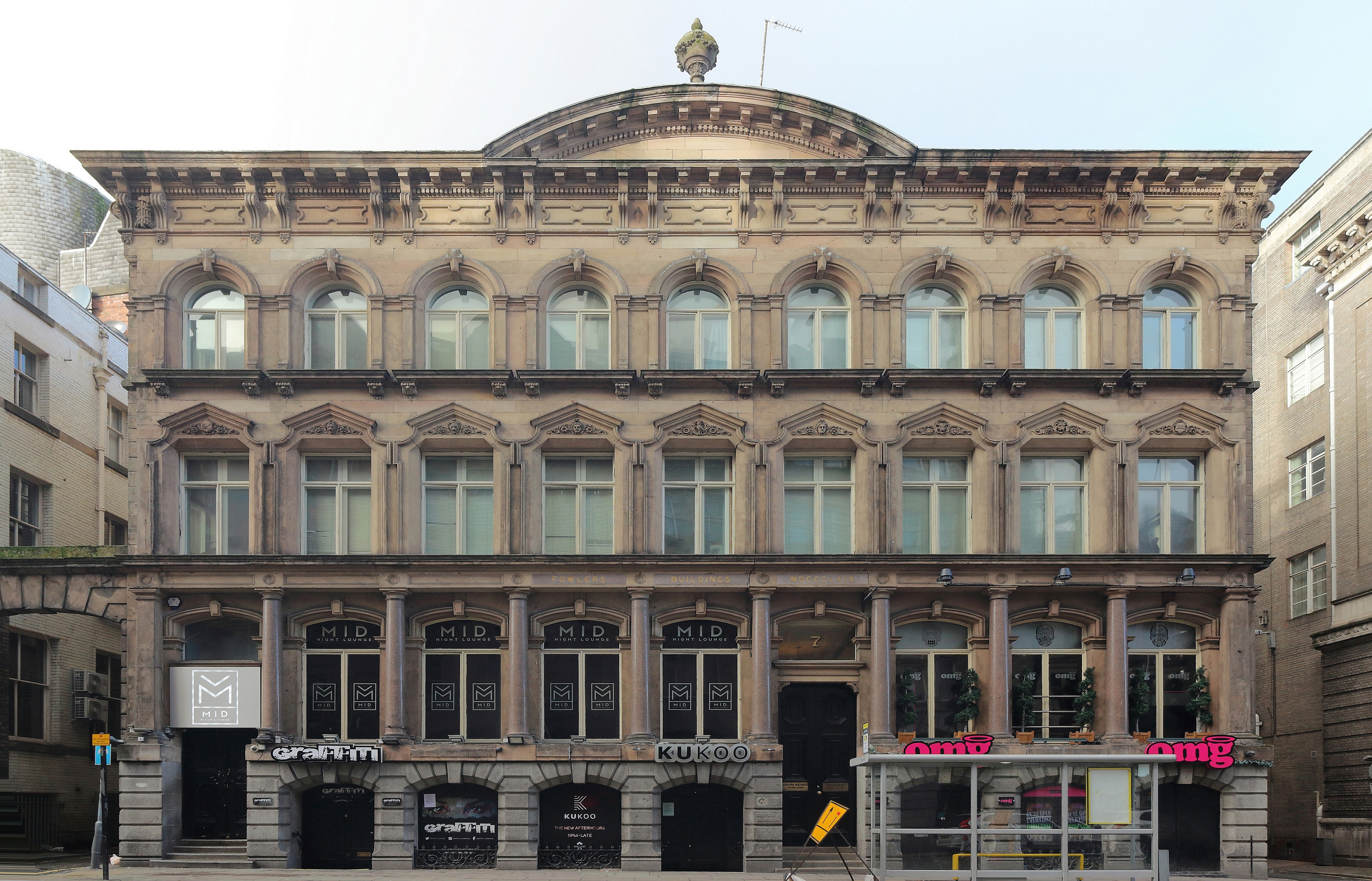 Grade II* listed offices and warehouse, viewed across Victoria Street, Liverpool.